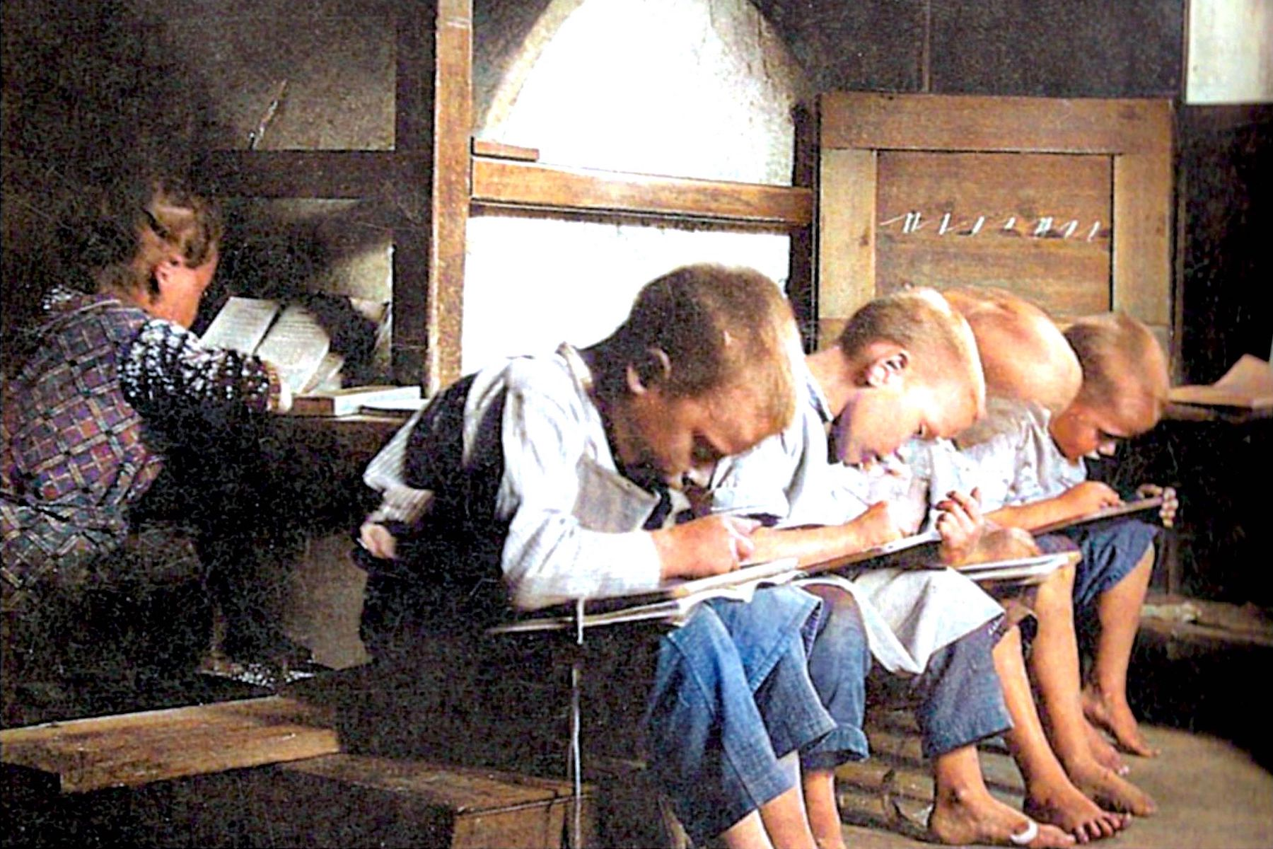 The so-called Katakombenschule, a secret schools organisation in South Tyrol during the Italian fascism, created in order to teach german language to the children